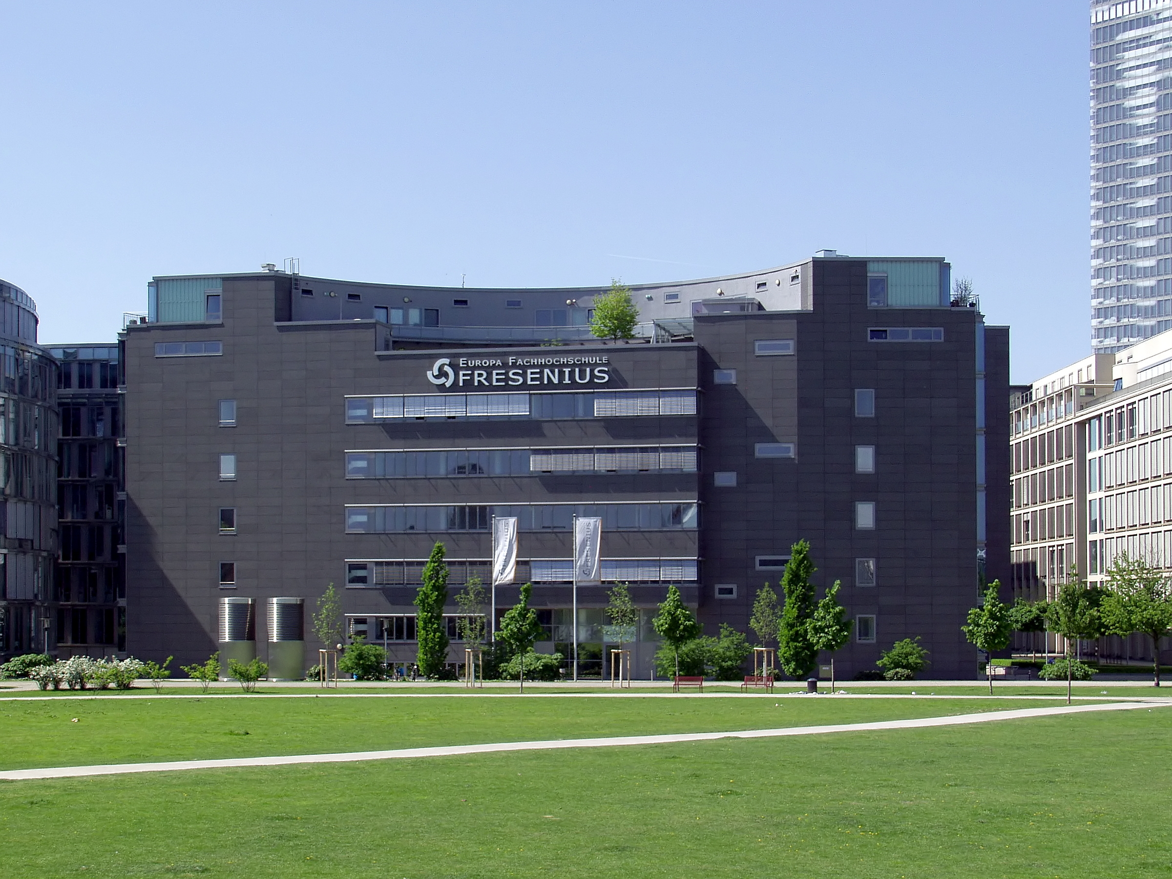 University of Applied Science Fresenius, Cologne